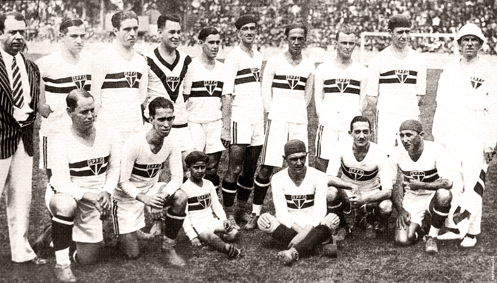 first squad of São Paulo Futebol Clube in 1930. Standing, from left to right: Ribeiro (massage therapist), Sérgio, Clodô, Nestor, Bock, Araken, Friedenreich, Zuanela, Rueda and Hugo (assistant referee). Sitting: Formiga, Serrote, Barthô, Siriri and Segatti.